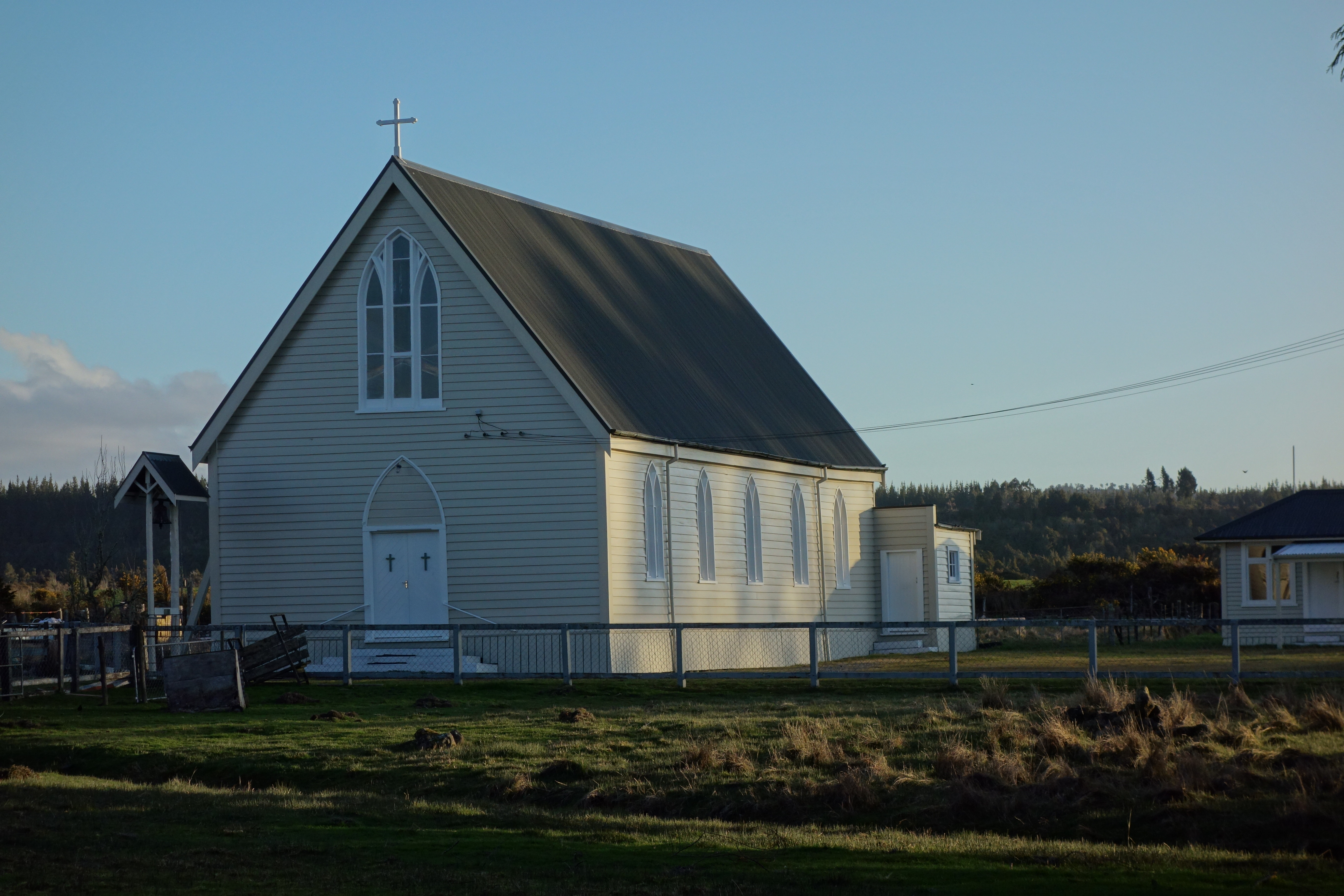 St Patrick's church, Kumara